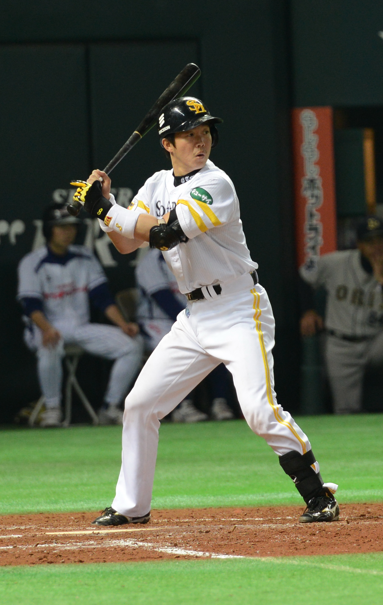 Shinya Tsuruoka, catcher of the Fukuoka SoftBank Hawks, at Fukuoka Dome.